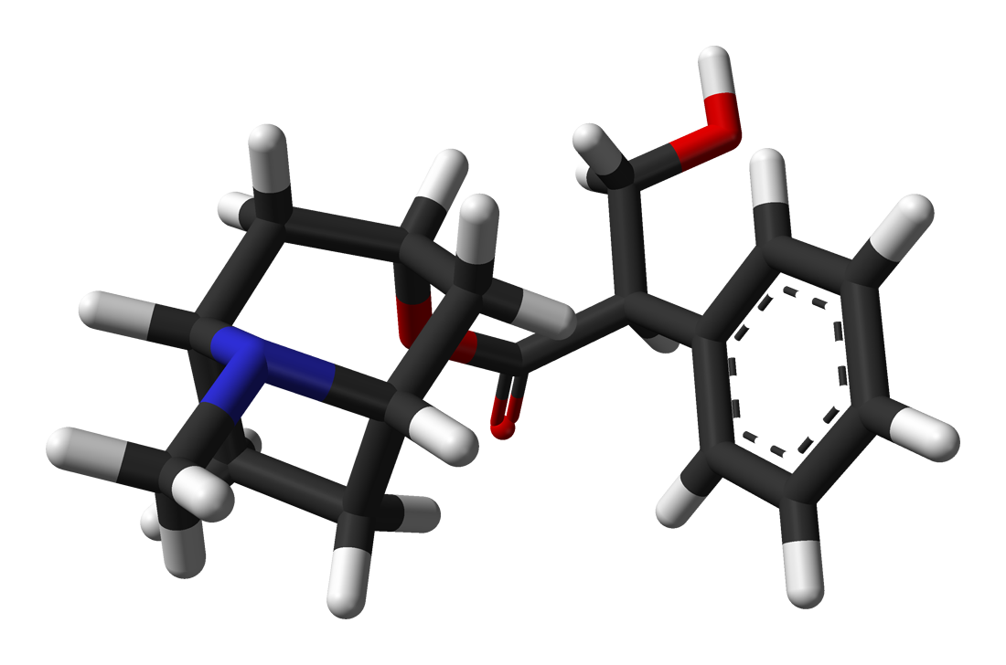 Stick model of the (R)-atropine molecule, the pharmacologically inactive enantiomer in atropine. Sometimes referred to as D-hyoscyamine.